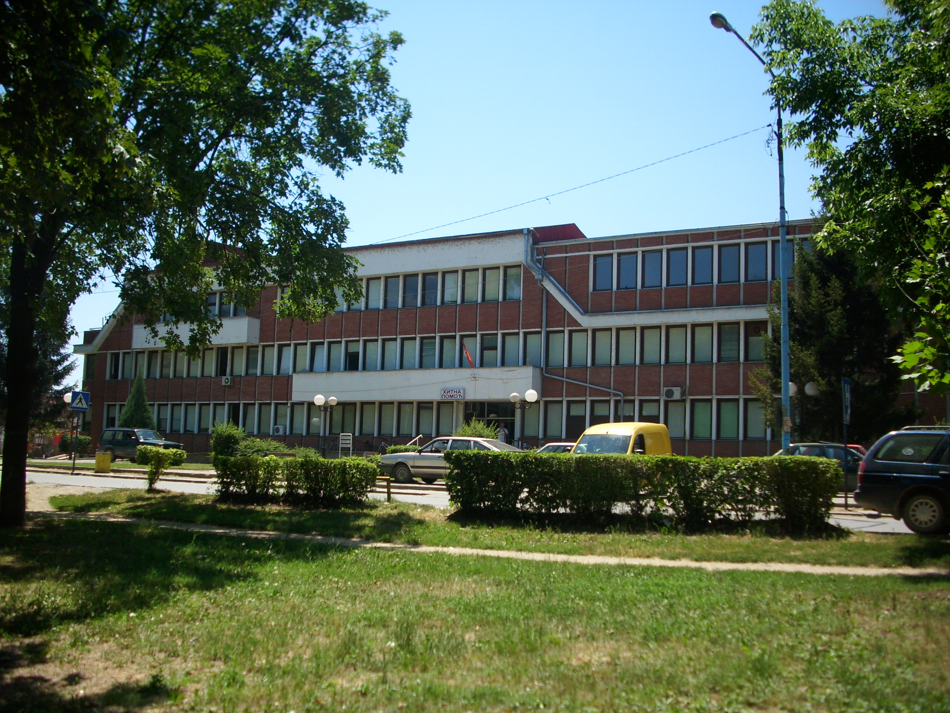 Healt center in Petrovac